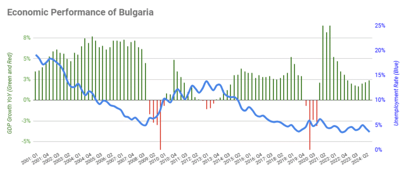 Quarterly Gross Domestic Product (year-on-year growth in real GDP) and Unemployment Rate (simple monthly average)